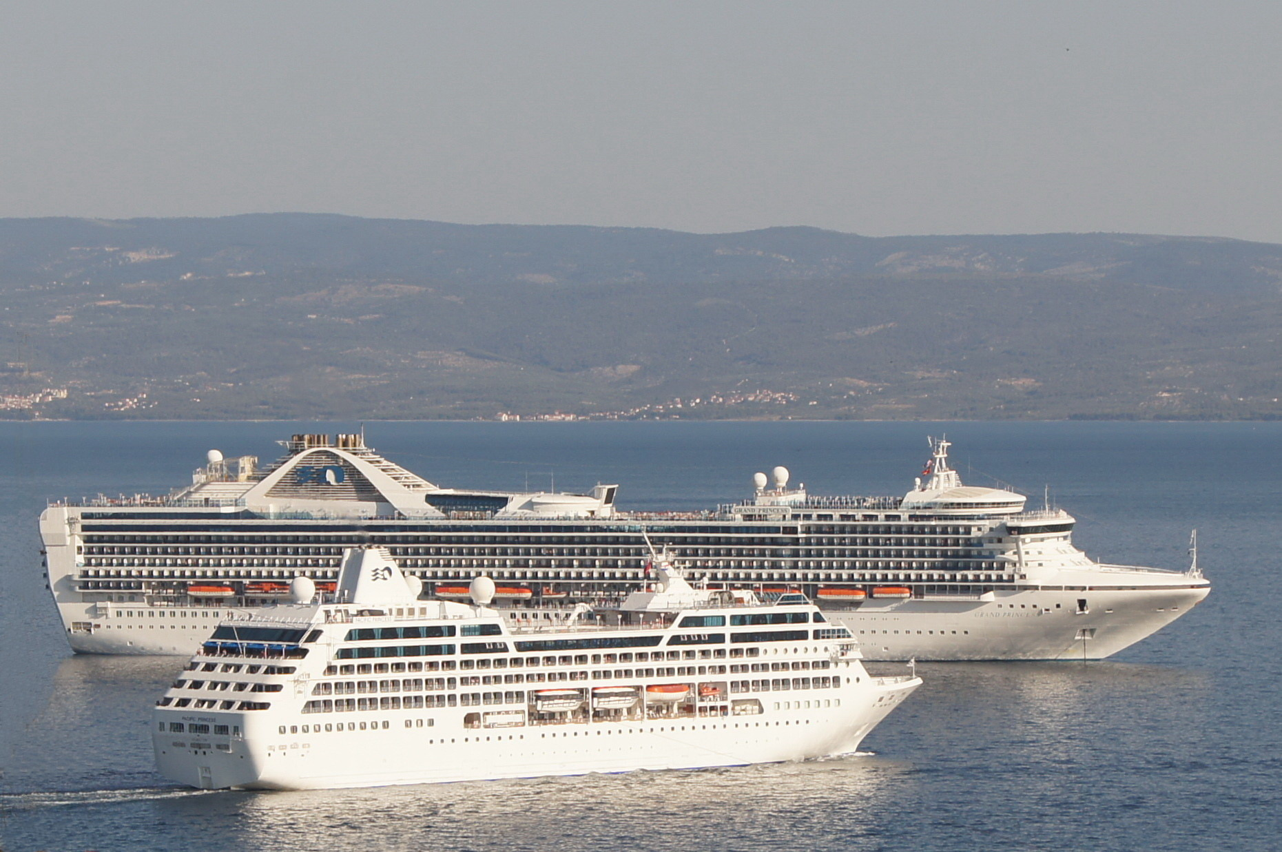 Pacific Princess & Grand Princess in Split on 2011-07-08